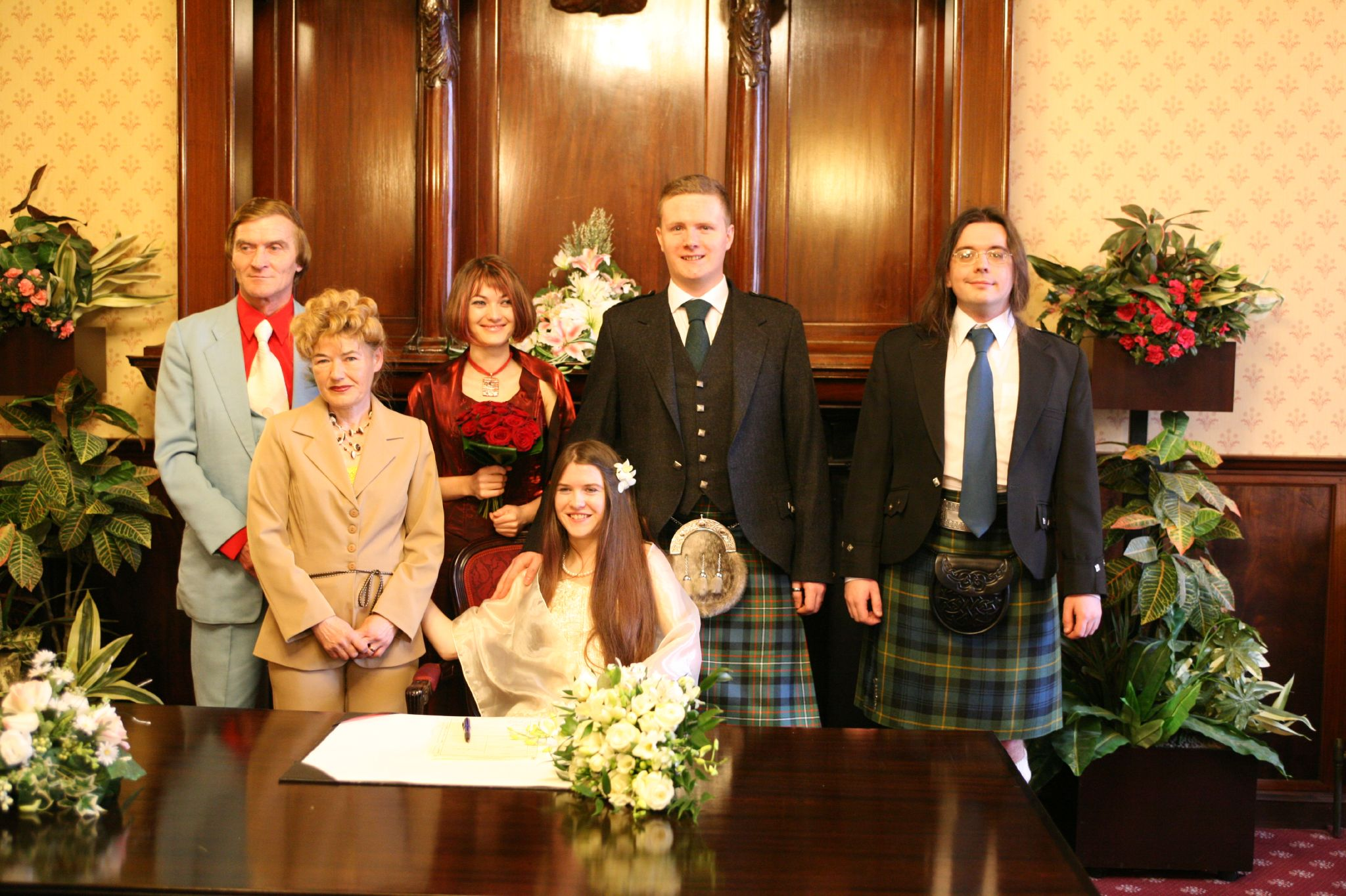 A Scottish wedding ceremony: both the groom and the best man wear the kilt.